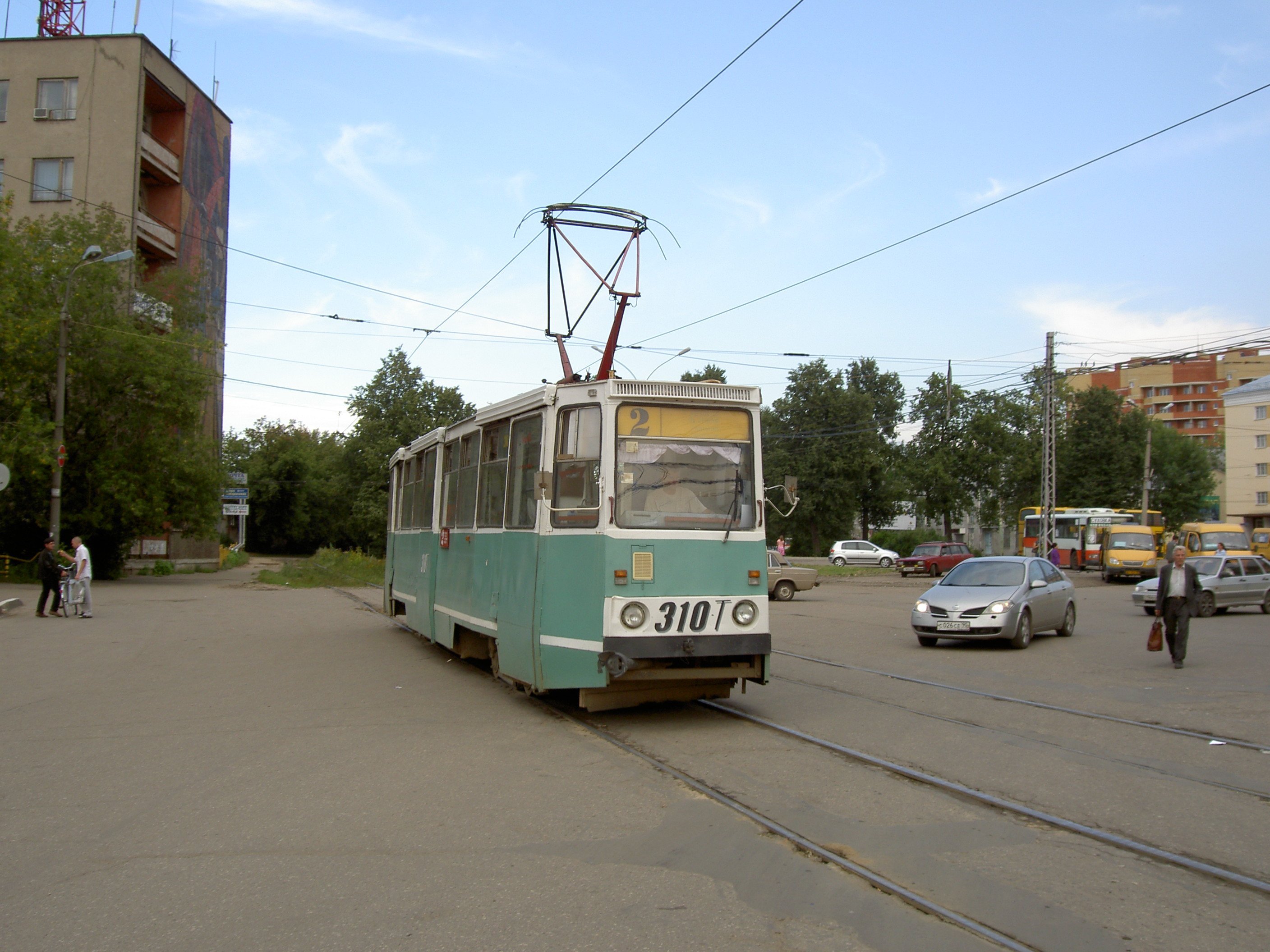 Tram at Vokzalnaya square in Ivanovo